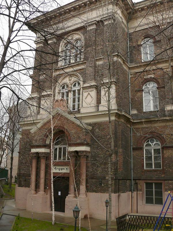 The Bethlen Gábor Square in Budapest